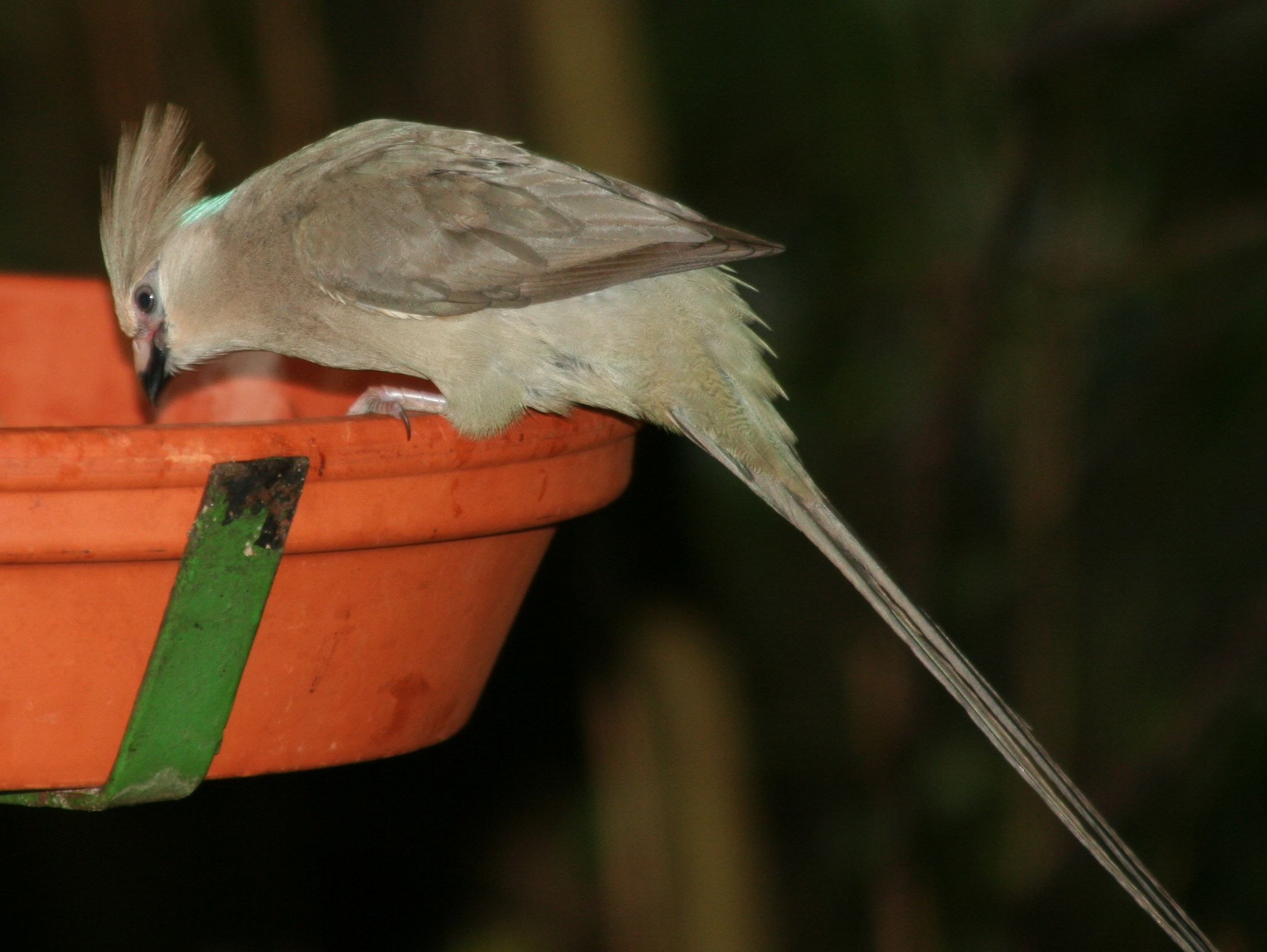 Urocolius macrourus, Vogelpark Walsrode